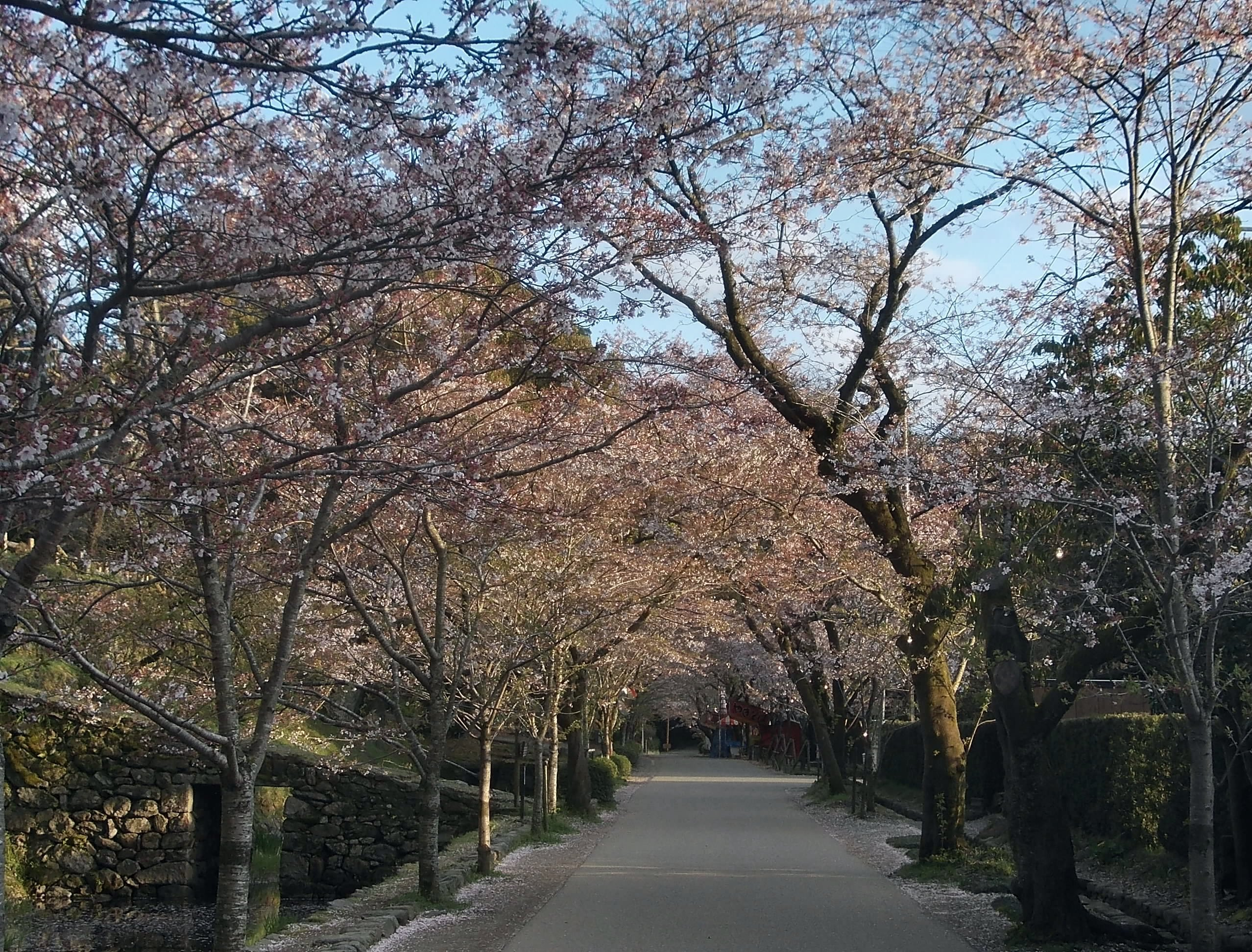 Roadside cherry blossoms in Sugi-no Baba Street, Akizuki, Asakura, Fukuoka, Japan